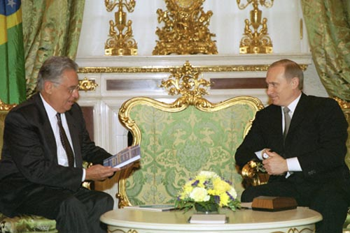 THE GRAND KREMLIN PALACE, MOSCOW. President Putin talking with President Fernando Henrique Cardoso of Brazil.